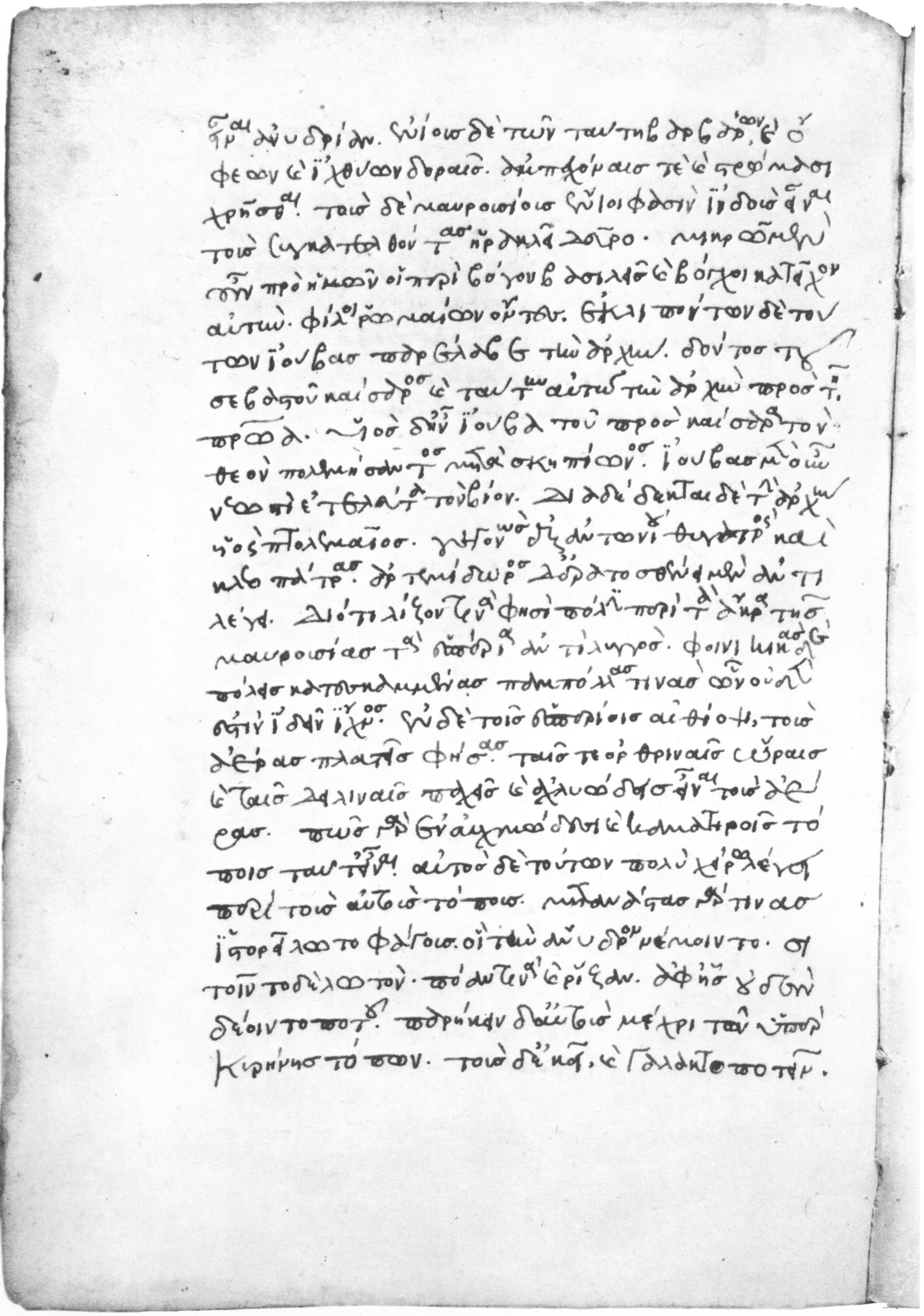 Strabo, Geographica, in ms. Venice, Biblioteca Marciana, Gr. XI,6, fol. 244v.